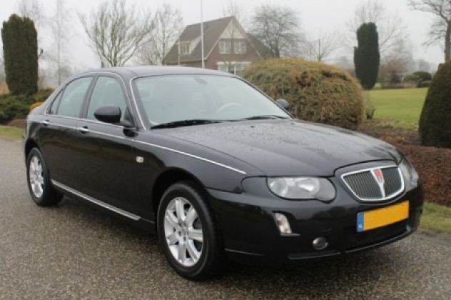 2004-2005 Rover 75 photographed in the Netherlands